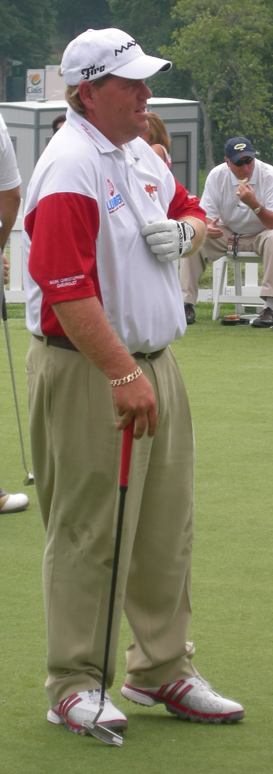 John Daly on the putting green at the Congressional Country Club during the Earl Woods Memorial Pro-Am prior to the 2007 AT&T National tournament.